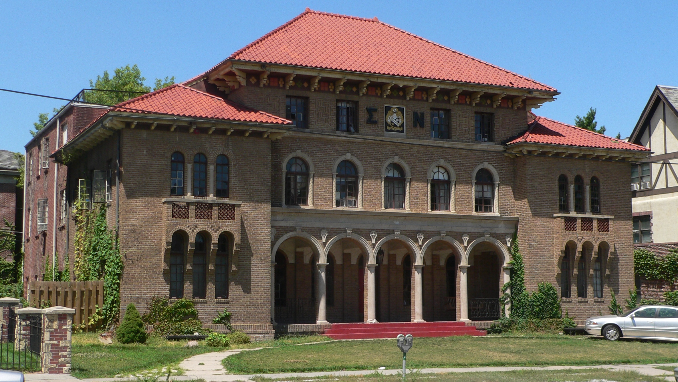 Sigma Nu fraternity house at University of Nebraska-Lincoln; located at 625 N. 16th Street in Lincoln, Nebraska. View is from the southeast.